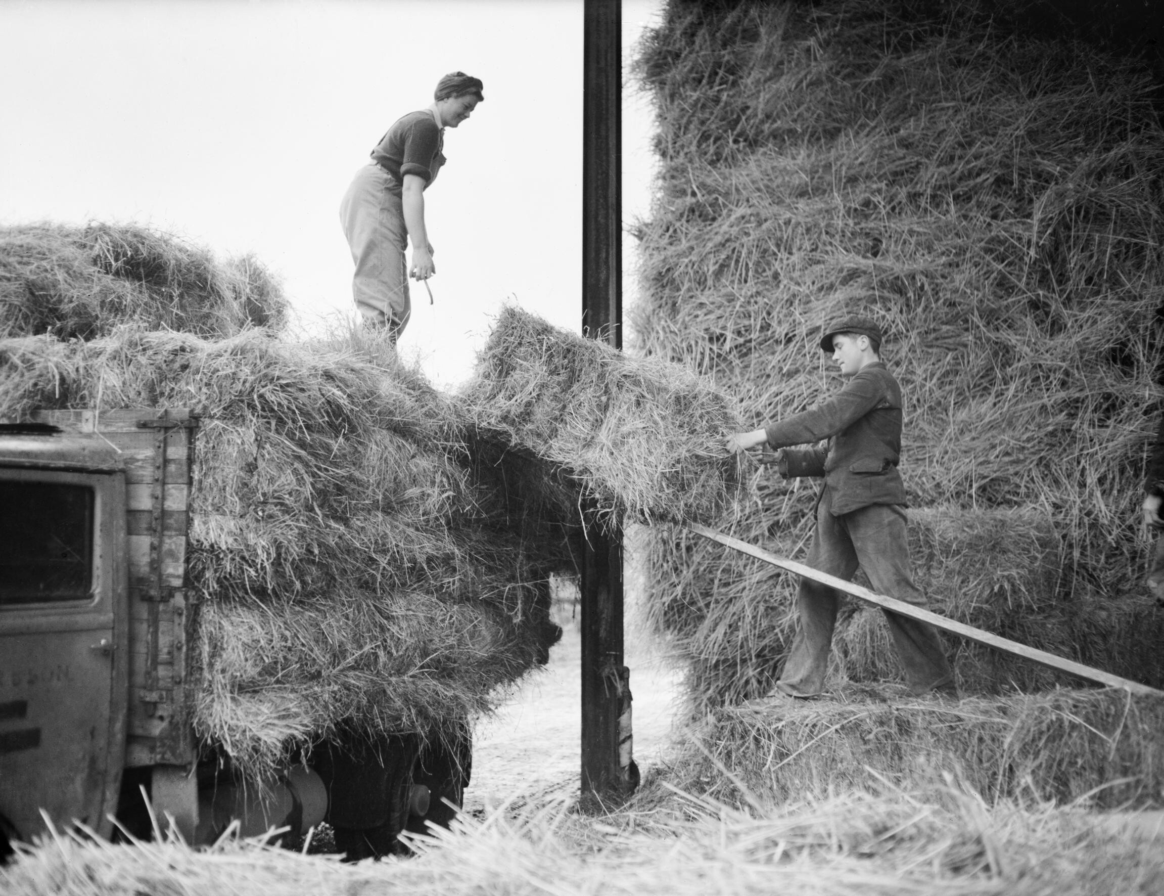 Landgirl's Day- Everyday Life and Agriculture in West Sussex, England, UK, 1944 29 year old Land Girl Rosalind Cox stands on the back of a truck and uses a 9 inch hook to pass hay bales down from the truck to the waiting hands of a farm hand below. The bales, according to the original caption, weigh 80 pounds. The bales are pulled down the plank of wood acting as a ramp, and are stacked by the farmhand. They are working on Mr Tupper's farm, Bignor, West Sussex.